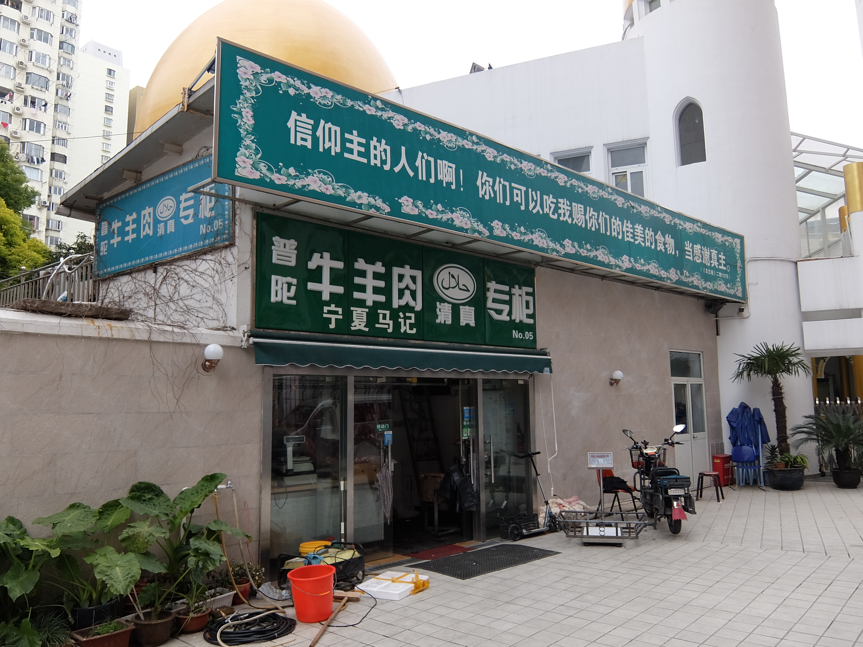 Huxi Mosque, Putuo District, Shanghai, China